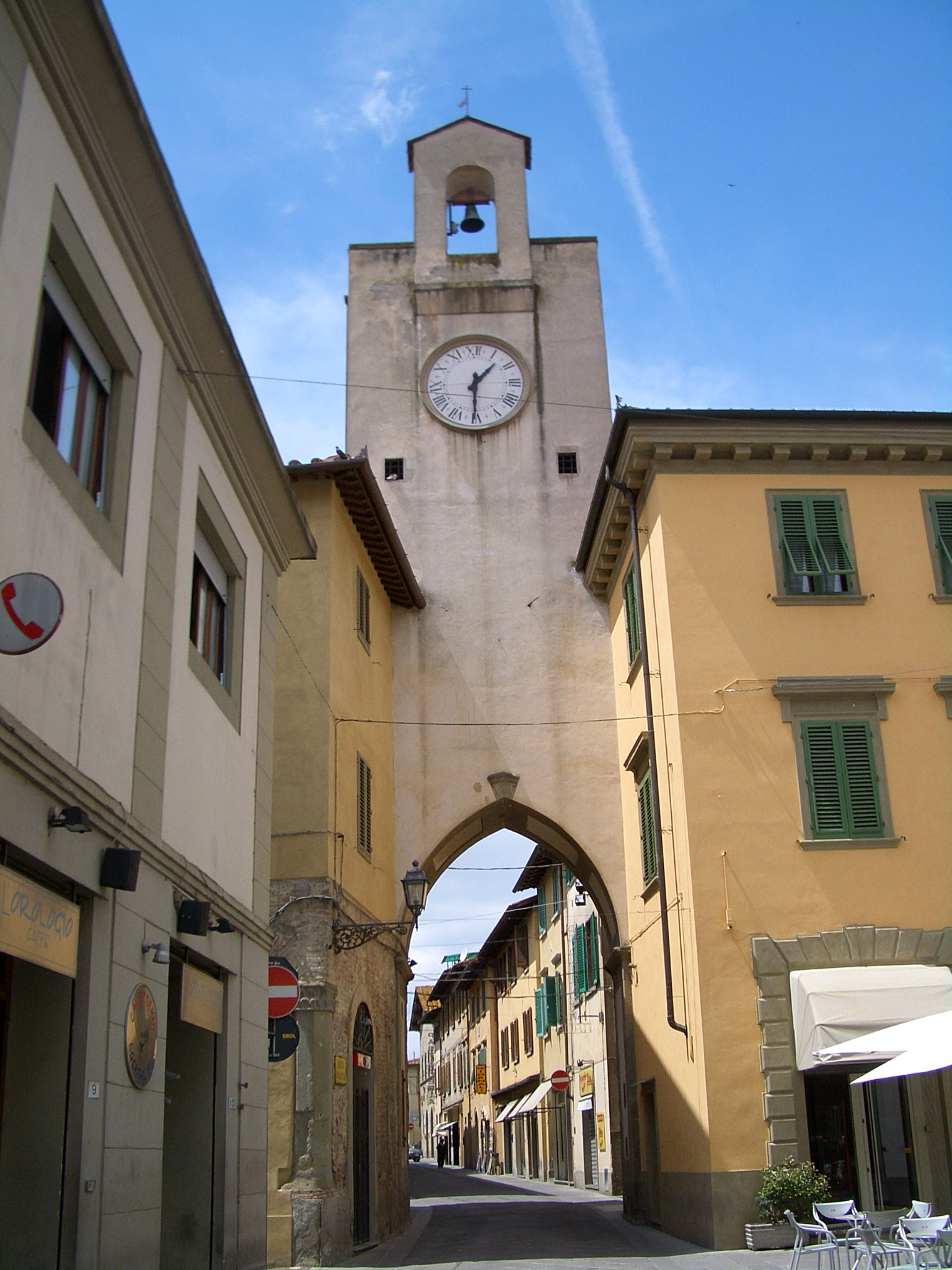 A gate tower in the center of Borgo San Lorenzo, Tuscany